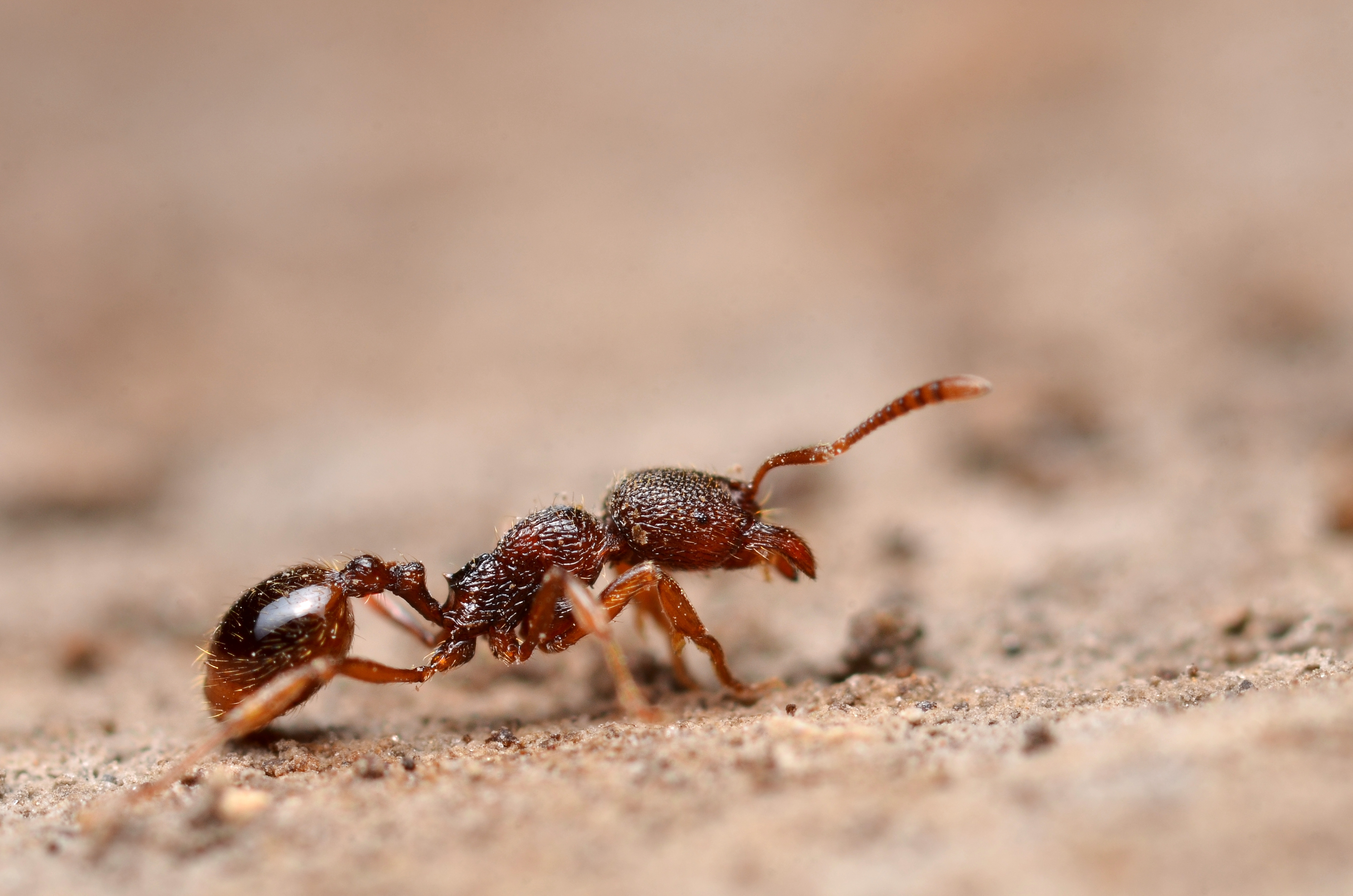 A common but discrete ant species living in forest/woodland leaf litter. It has a pecular thanatosis behavior : when disturbed it mimics death by stopping any movements and taking strange positions with its legs. Progressively, it beggins to move again but with very jerky movements, limping as if it were wounded. Finaly it moves again normally. You can imagine this behavior from the series of 3 pictures here. I suppose that his name "debile" comes from that behavior. [1]